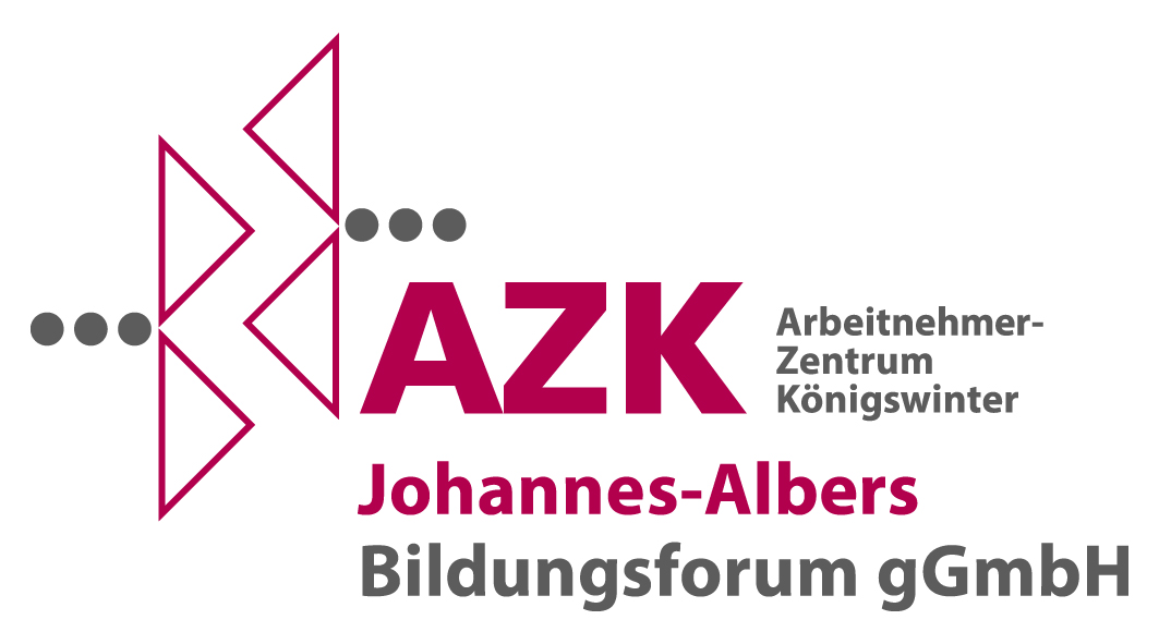 Logo of Johannes-Albers-Bildungsforum gGmbH